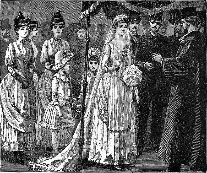 Jewish marriage ceremony c 1892. Original Source: From John Clark Ridpath: Ridpath's universal history: an account of the origin, primitive condition, and race development of the greater division of mankind. (New York : Merrill & Baker, c1899).